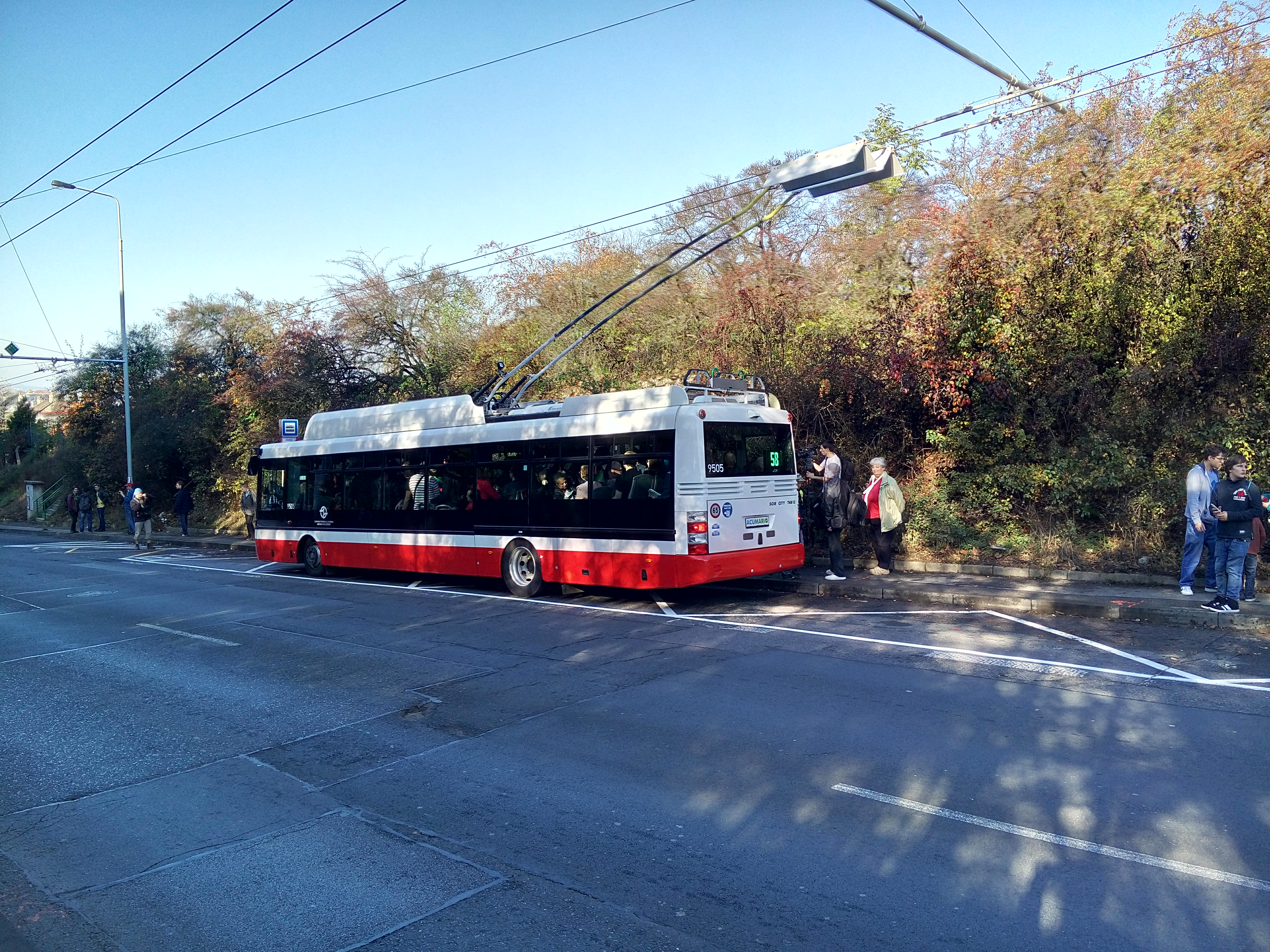 Trolleybus SOR TNB 12 waiting on a trolleybus stop Kelerka in Prosecká street in Prague. Photo taken on a first day of Prague's trolleybus operation exactly 45 years after the original system was closed.